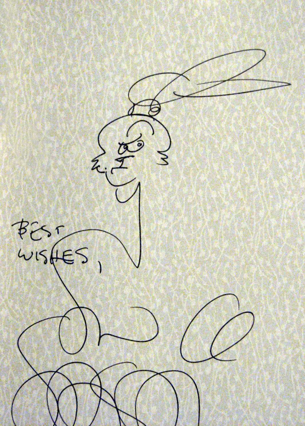 This is a signature of an artist Stan Sakai, with a sketch of his famous Character Usagi Yojimbo